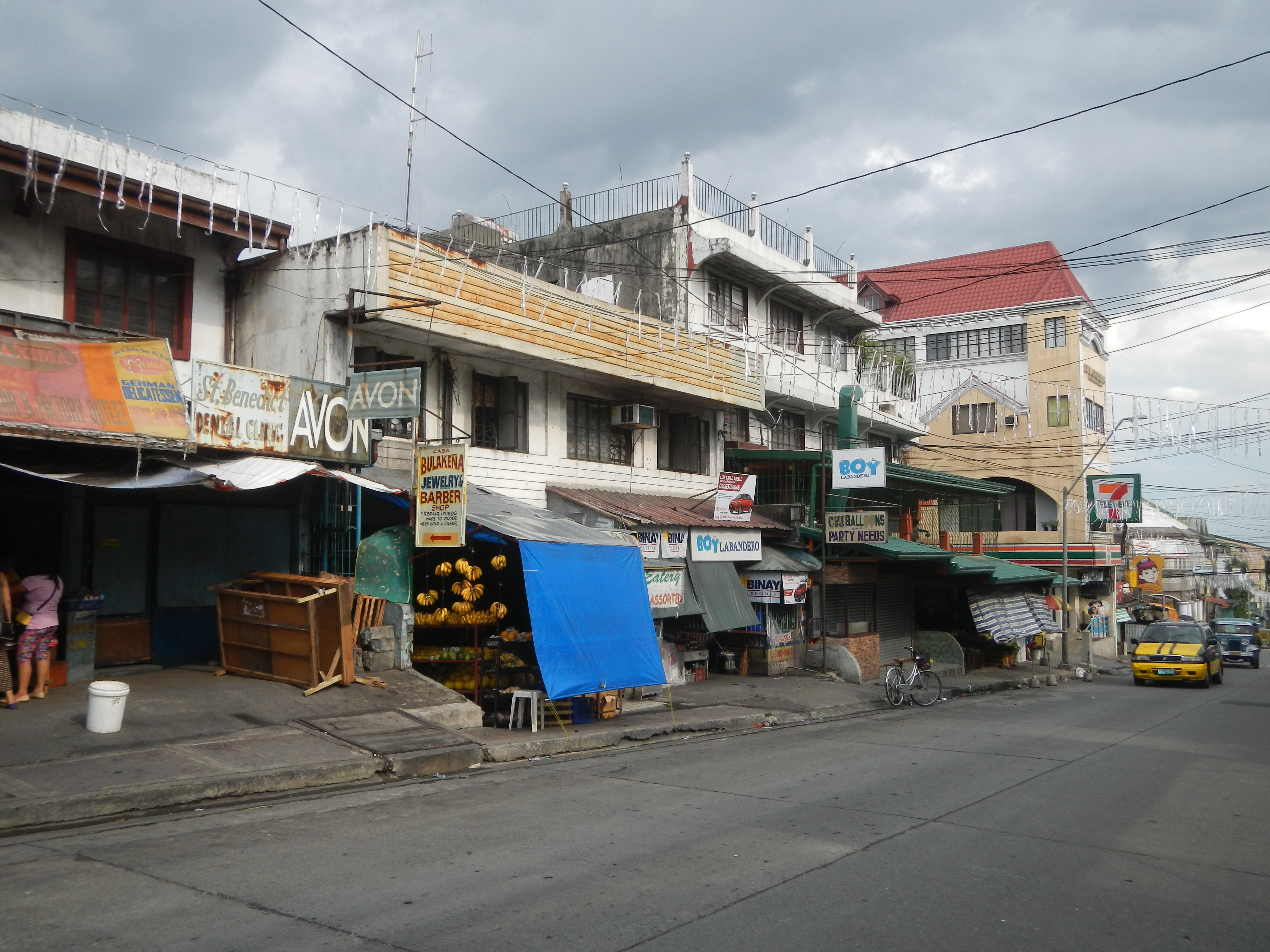 Legislative districts of Quezon City District 5, Greater Lagro, Novaliches, District, Barangays of Quezon City, Quezon City Quezon City, 1123 Metro Manila along Km 22, Quirino Highway formerly called the Manila-del Monte Garay Road or Ipo Road.